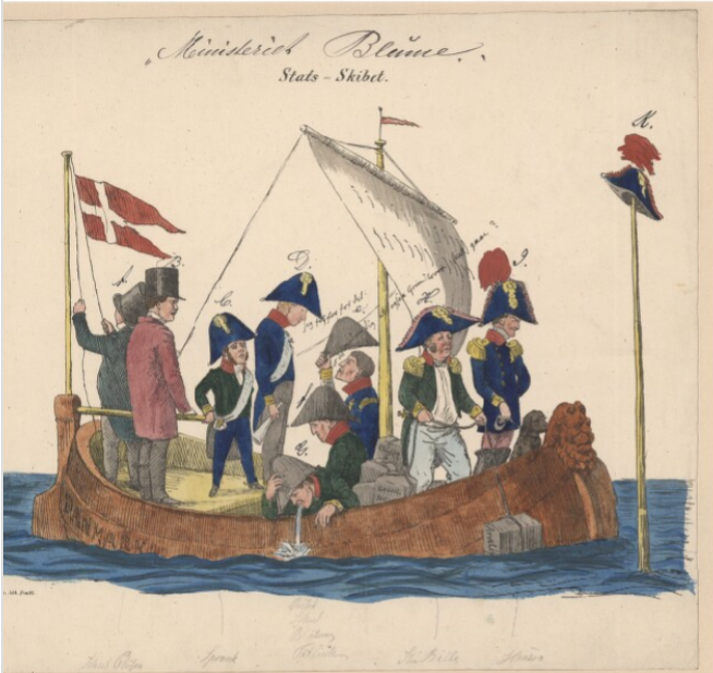 The Ministry of Blume. People seen in the picture: "Reventlow-Criminil, Heinrich (1798-1869) greve, statsminister Moltke, Carl (1798-1866) greve, statsmand Sponneck, Wilhelm (1815-1888) rigsgreve, politiker Bluhme, C. A. (1794-1866) poitikerScheel, Anton Wilhelm (1799-1879) retslærd, politiker Bang, P. G. (1797-1861) embedsmand, politiker, jurist Simony, Carl Frederik (1806-1872) embedsmand, politiker Bille, Steen (1797-1883) søofficer Hansen, C. F. (1788-1873) officer"